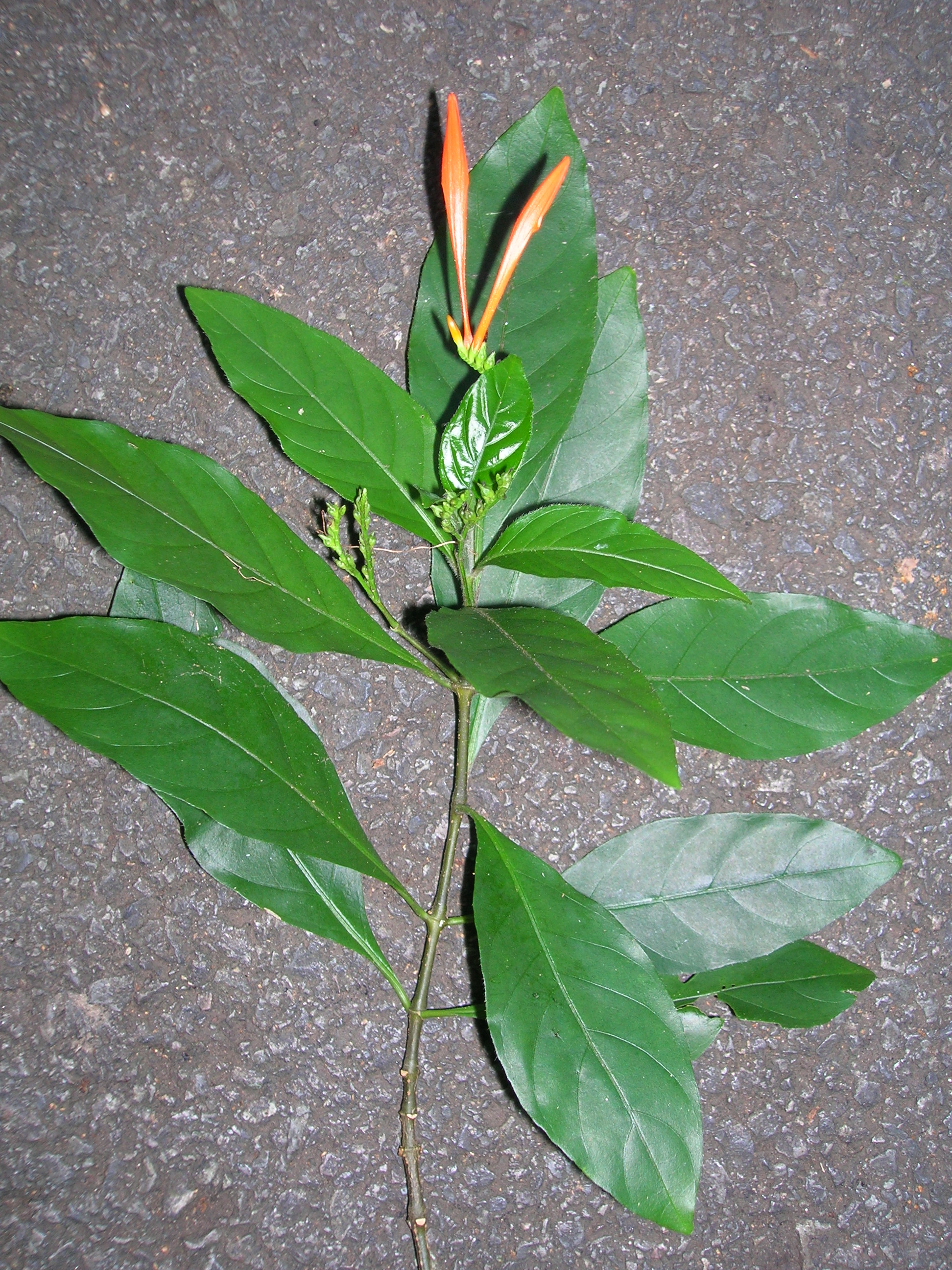 Justicia spicigera (branch and flowers). Location: Oahu, Nuuanu